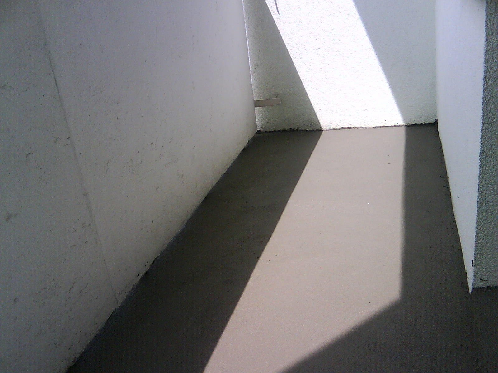 Fresh cement screed laid on the balcony.